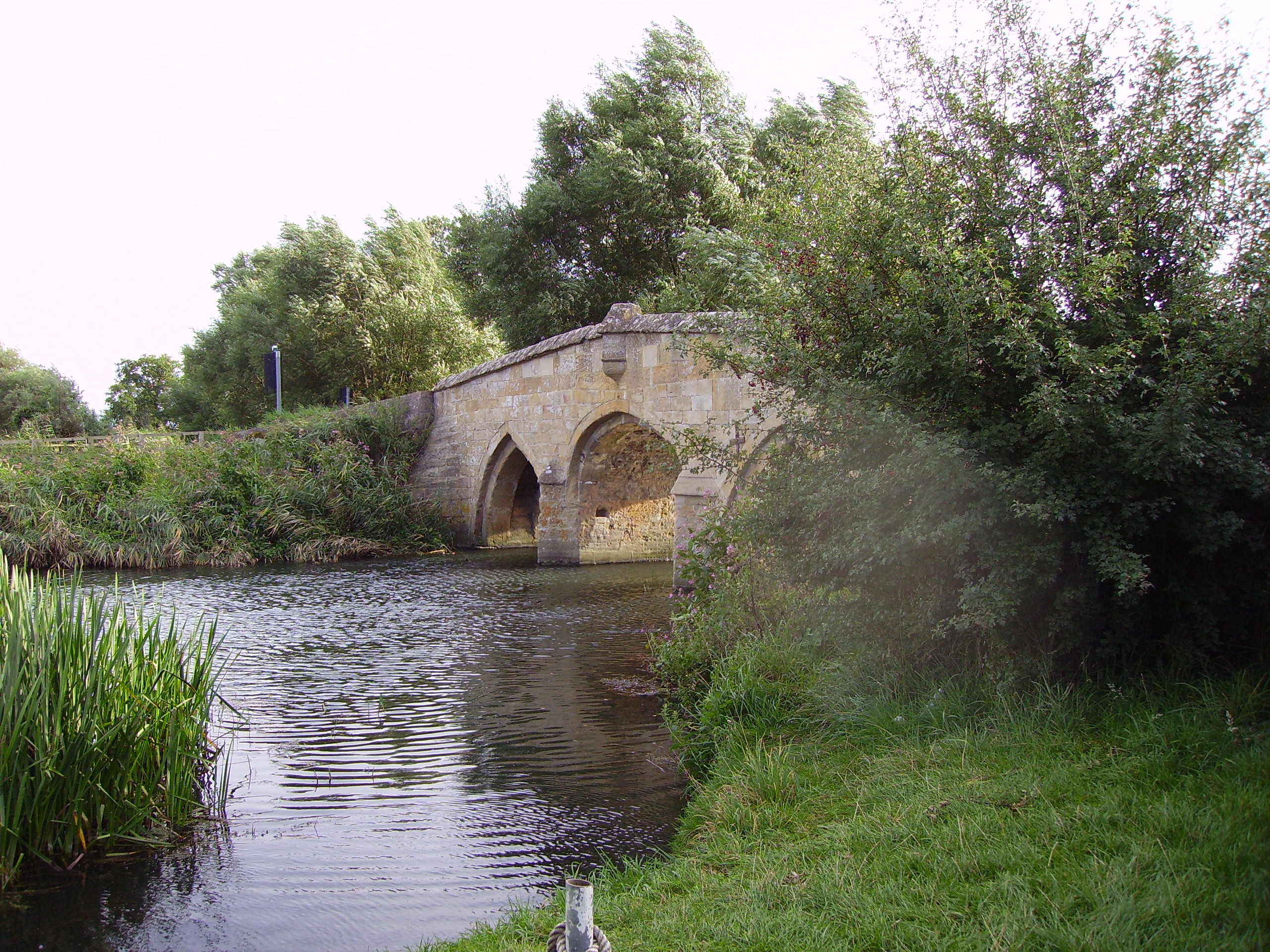 Photographer: User:Ballista